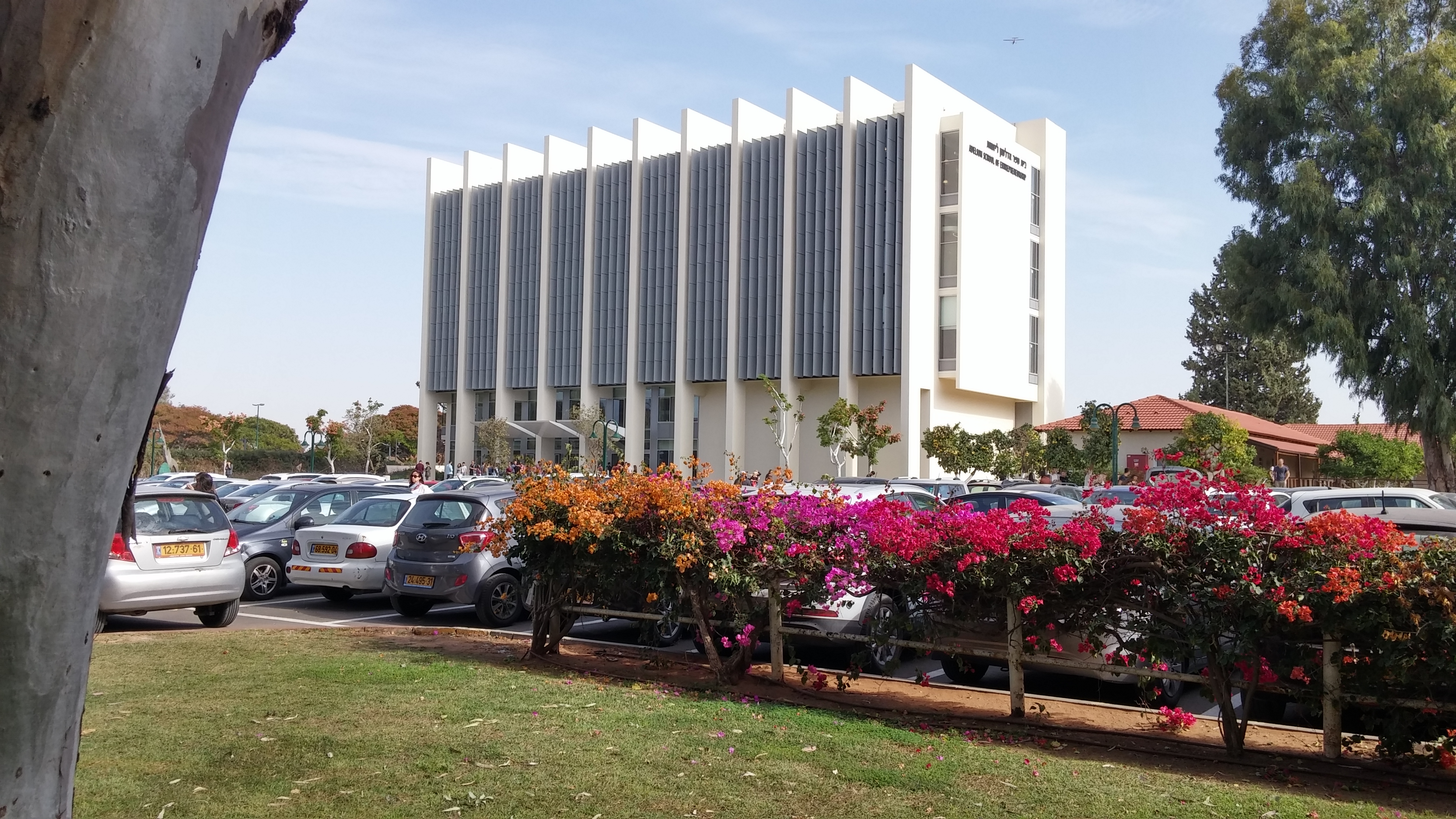 Adelson School of Enterpreneurship, Interdisciplinary Center Herzliya